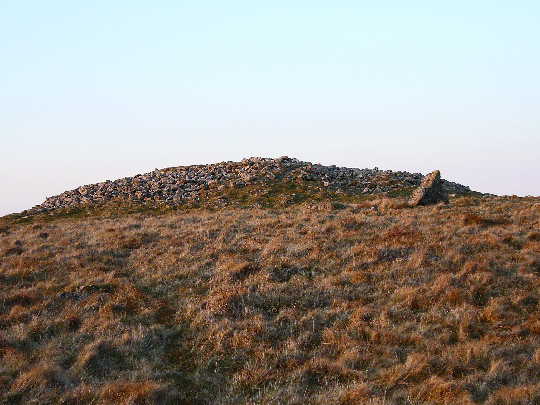 Cairn on Butterdon hill on south Dartmoor.